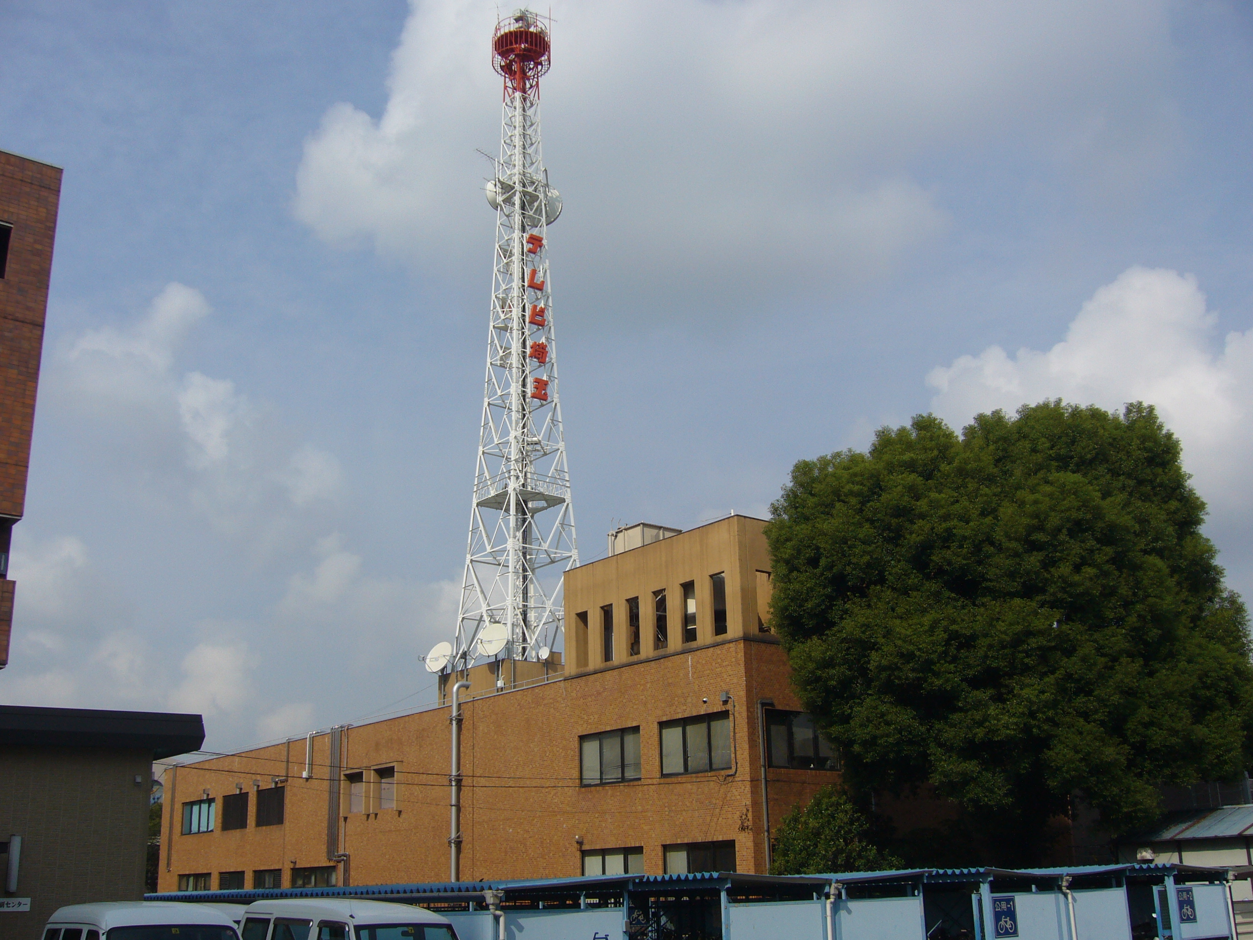 Television Saitama headquarters building